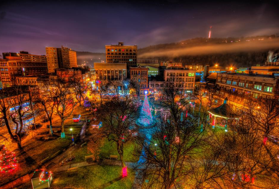 Central Park in downtown Johnstown at Christmas